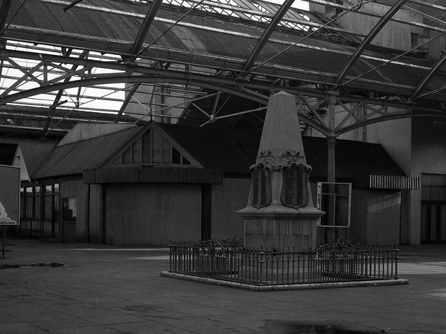 Interior York Road railway station. For information on the history of this station, see 2412713. View shows war memorial and station bar. Offices within the station were in a Swiss Chalet style devised by the railway company's engineer, Berkley Deane Wise.... more